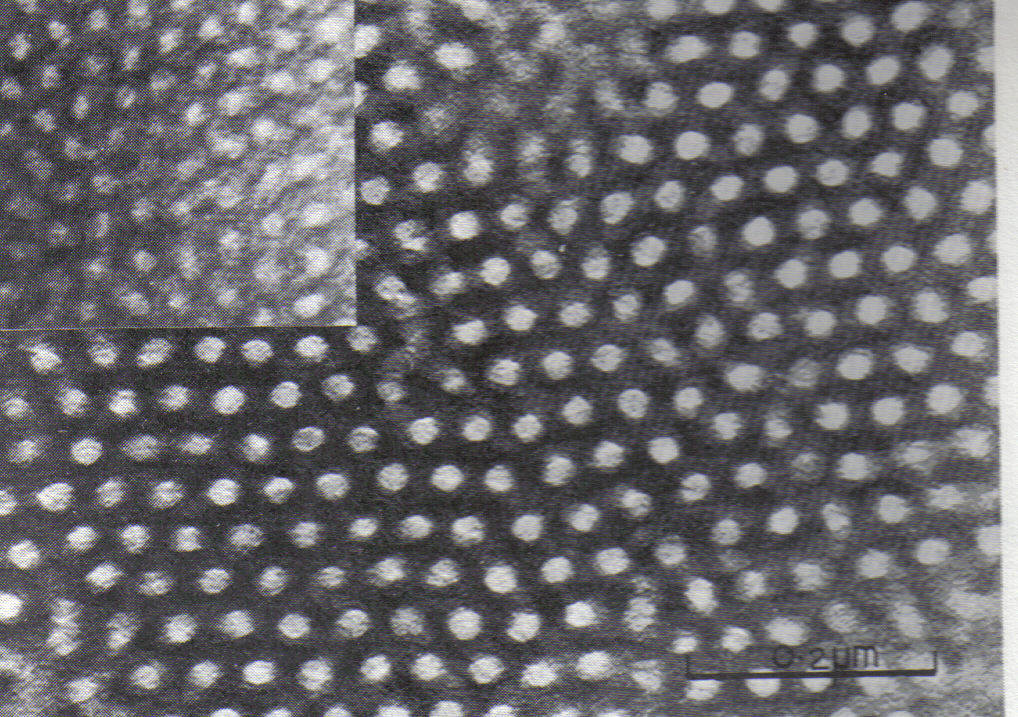 TEM micrograph using osmium tetroxide to preferentially stain the polybutadiene matrix. From the thermoplastic elastomers article: "Block copolymers are interesting because they can "microphase separate" to form periodic nanostructures, as in the styrene-butadiene-styrene block copolymer shown at right. The polymer is known as Kraton and is used for shoe soles and adhesives. Owing to the microfine structure, the transmission electron microscope or TEM was needed to examine the structure. The butadiene matrix was stained with osmium tetroxide to provide contrast in the image. The material was made by living polymerization so that the blocks are almost monodisperse, so helping to create a very regular microstructure. The molecular weight of the polystyrene blocks in the main picture is 102,000; the inset picture has a molecular weight of 91,000, producing slightly smaller domains. The spacing between domains has been confirmed by small-angle X-ray scattering, a technique which gives information about microstructure. Since most polymers are incompatible with one another, forming a block polymer will usually result in phase separation, and the principle has been widely exploited since the introduction of the SBS block polymers, especially where one of the block is highly crystalline. One exception to the rule of incompatibility is the material Noryl, where polystyrene and polyphenylene oxide or PPO form a continuous blend with one another."